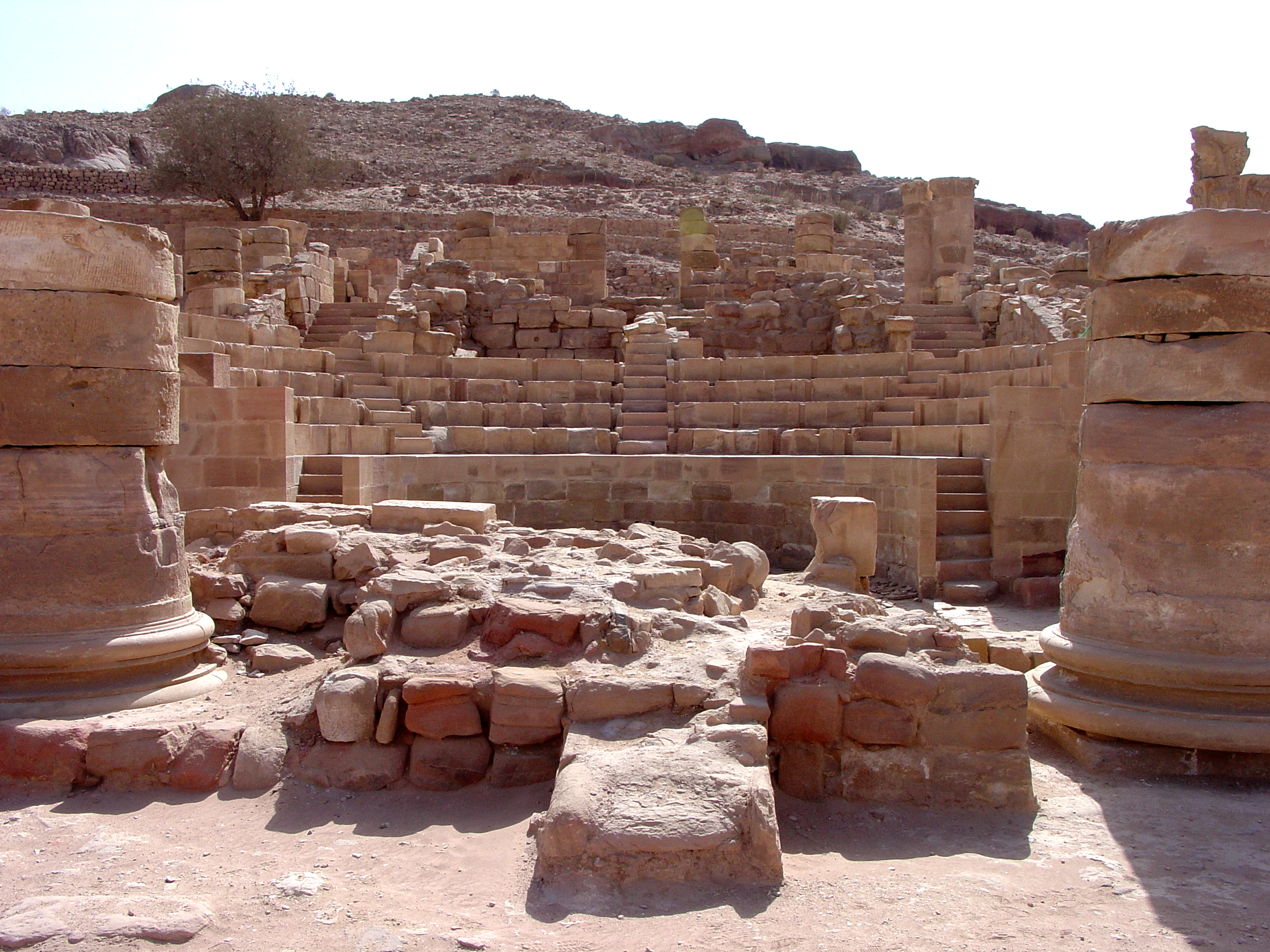 The theatron would have held about 600 people, consistent with its possible use as a bouleterion (council chamber), odeon (recital theatre), or both. Only the first few rows of seats have been restored; additional rows were supported on top of barrel-vaulted rooms.